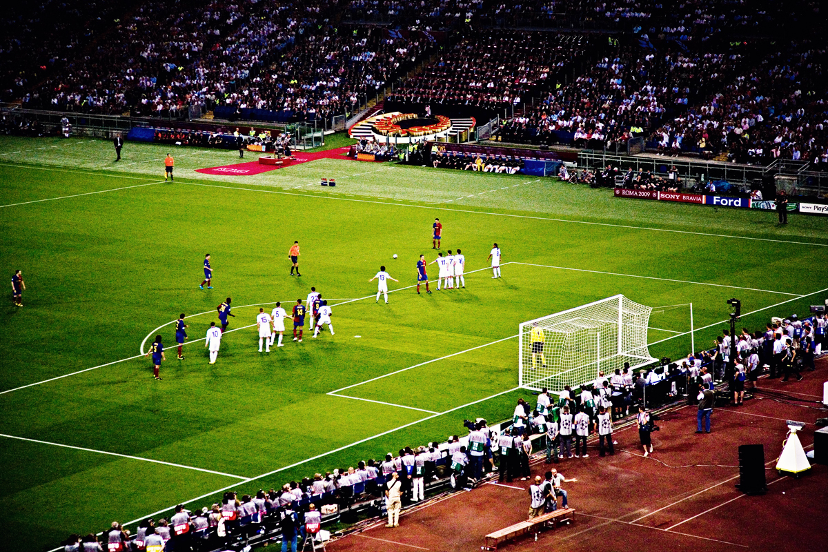 Barcelona midfielder Xavi preparing to take a free kick in the 2009 UEFA Champions League Final against Manchester United on 27 May 2009